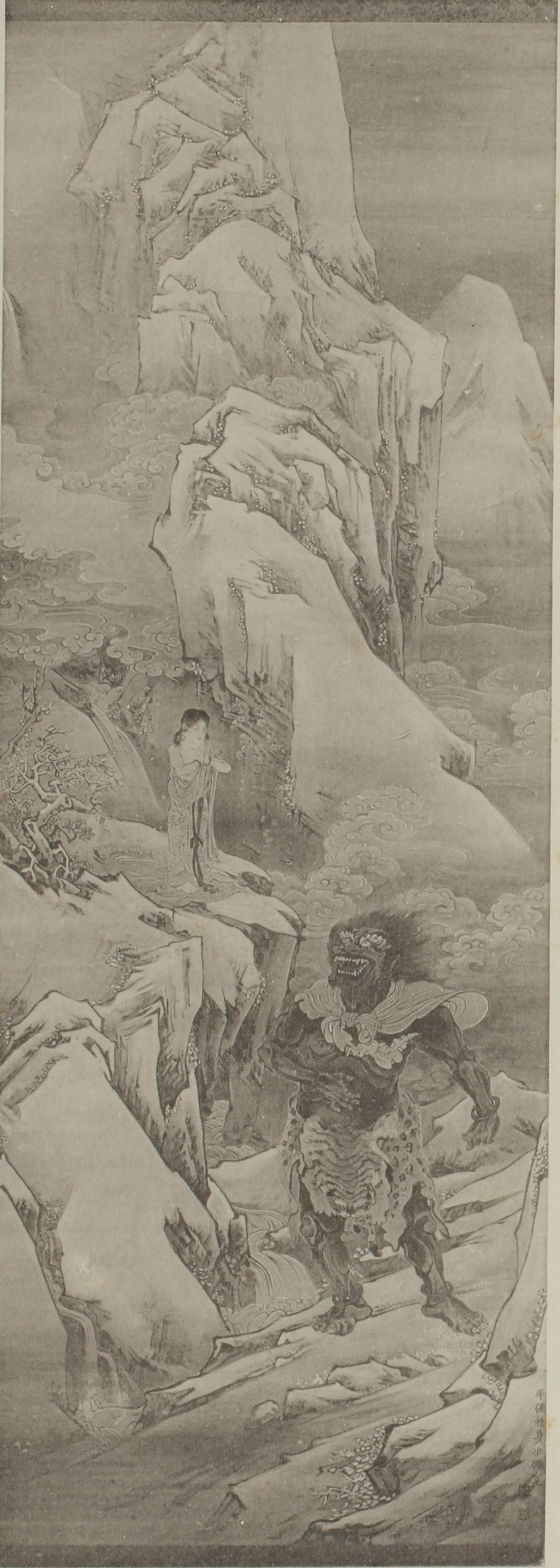 'Painting of Sakya's religious ordeal at Mt.Sessan.'